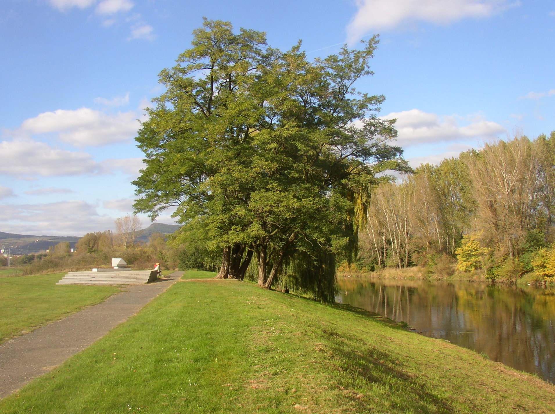 Memorial site near the Ohře River in Terezín. The Nazis ordered ashes of twenty two thousand Jewish victims to be thrown into the river at this place in November 1944.